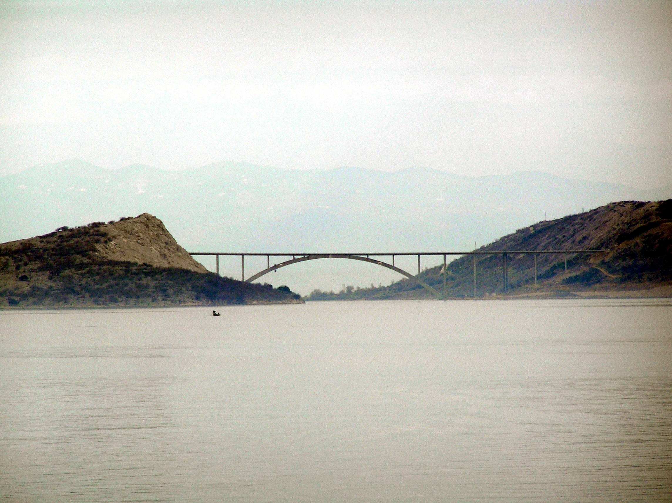 The bridge connecting Krk Island to mainland Croatia self-made (2006)